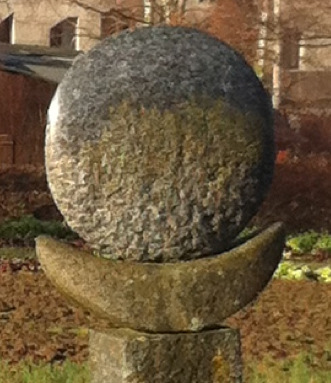 Detail from Garden near Goetheanum